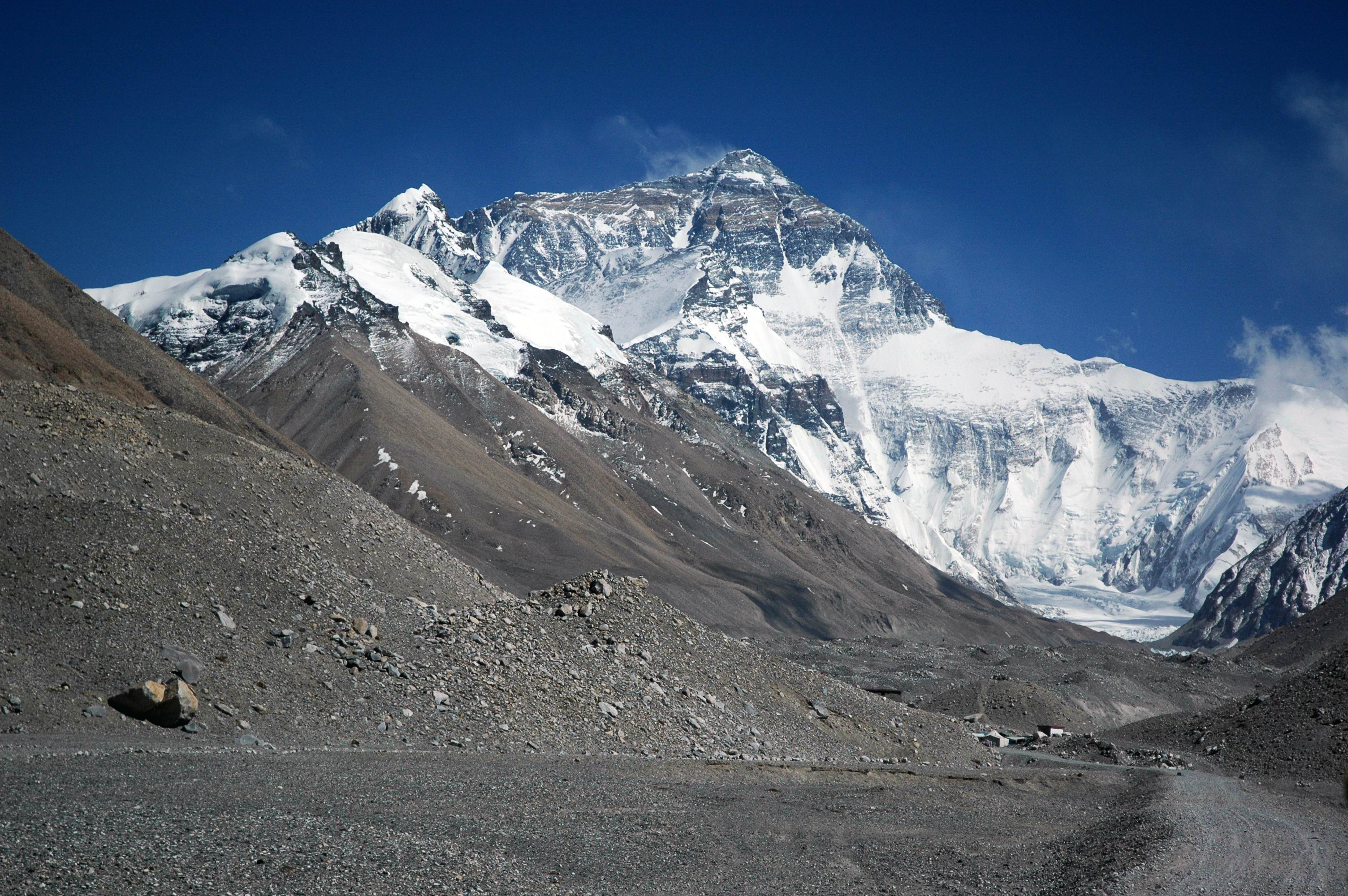 View of the majestic Mount Everest from the Rongbuk valley, close to base camp and the terminus of the Rongbuk glacier at 5,200m.